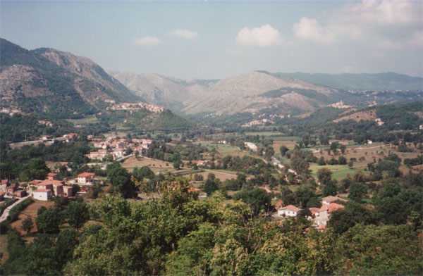 Comino valley in the Latium region of Italy. Personal photo Andicat 22:21, 13 January 2006 (UTC)